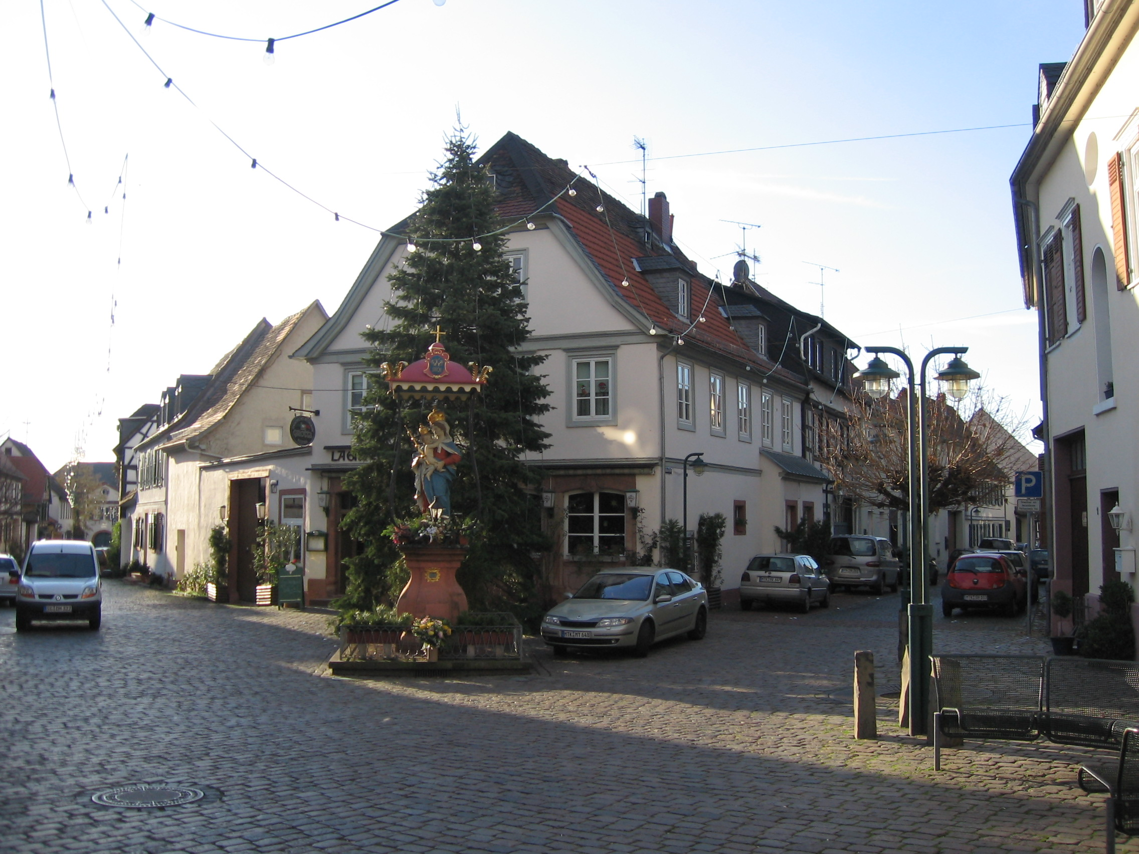 center of the old town of Hochheim am Main with a statue of the Blessed Virgin Mary